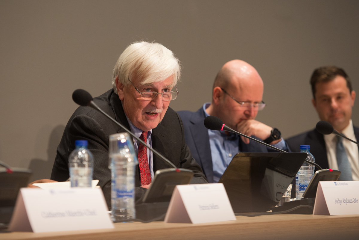 Judge Alphons Orie, Judge of the MICT and former ICTY Judge, speaking on Panel III at the ICTY Legacy Symposium.